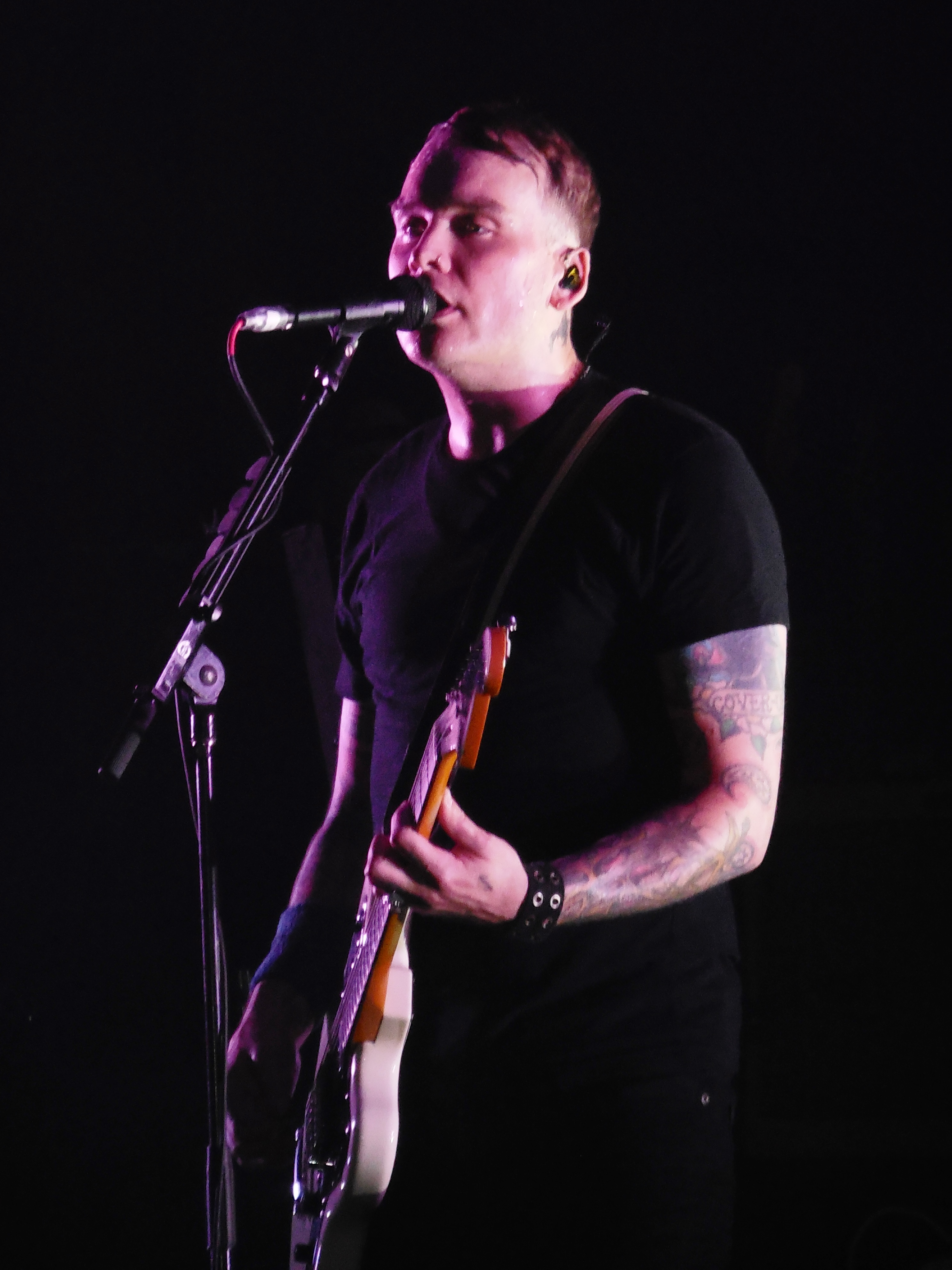 Matt Skiba of Alkaline Trio performing at the Observatory Orange County in Santa Ana, California on June 5, 2015 on Alkaline Trio's "Past Live" tour.